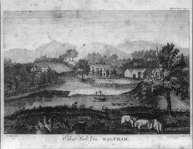 Title: Eden vale, in Waltham / J. Edes del. ; S. Hill sculp. Creator(s): Hill, Samuel, 1766?-1804, engraver Related Names: Edes, Jonathan W. , artist Date Created/Published: 1793. Medium: 1 print : etching. Summary: Print shows a bucolic farm setting in Waltham, Massachusetts. Repository: Library of Congress Prints and Photographs Division Washington, D.C. 20540 USA Illus. from: The Massachusetts magazine, or, Monthly museum of knowledge and rational entertainment. Boston, Mass. : Isaiah Thomas and Ebenezer T. Andrews, vol. II, no. VIII, 1793 (April).